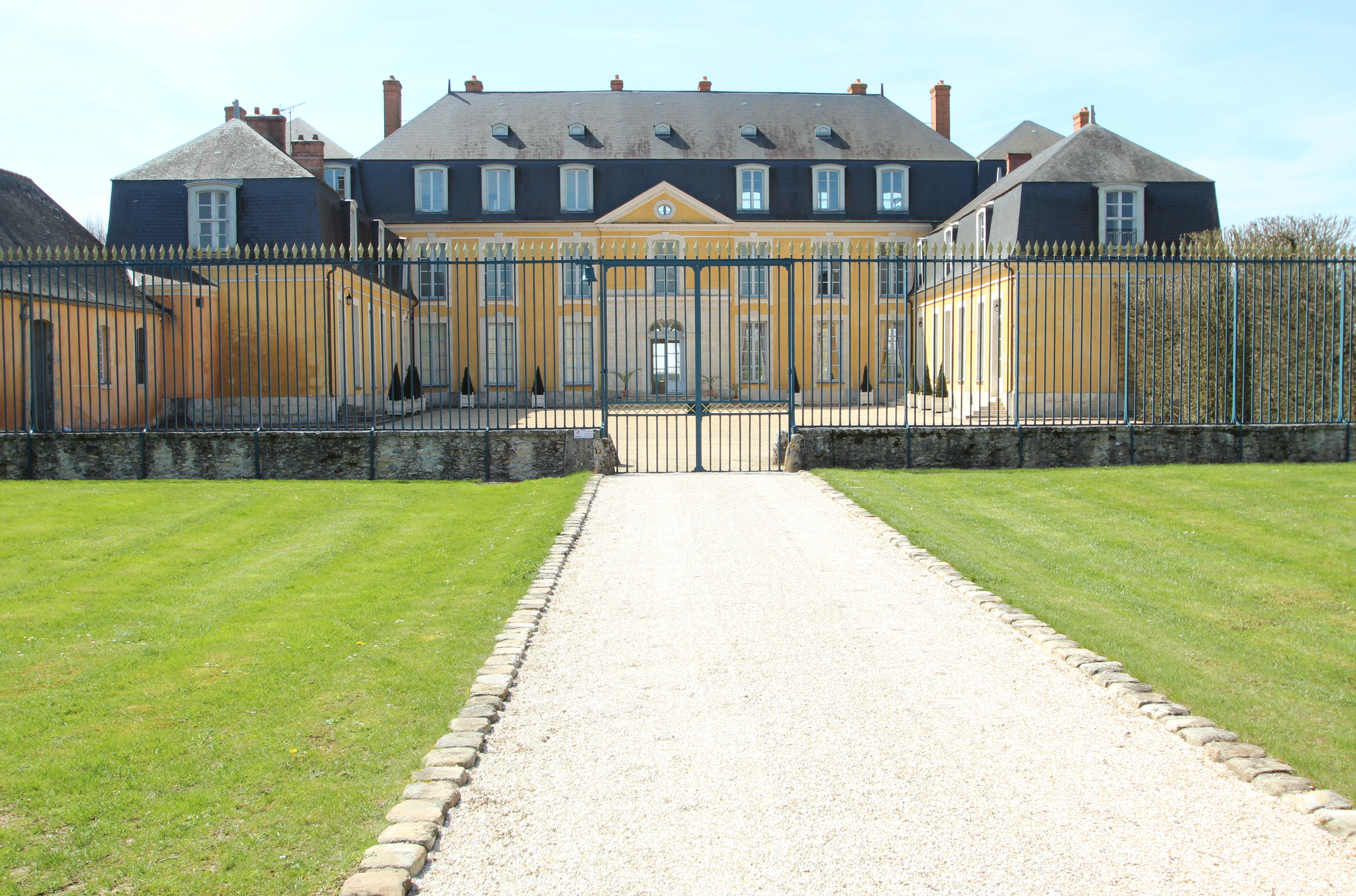 Dommerville castel in Angerville, Essonne, France.